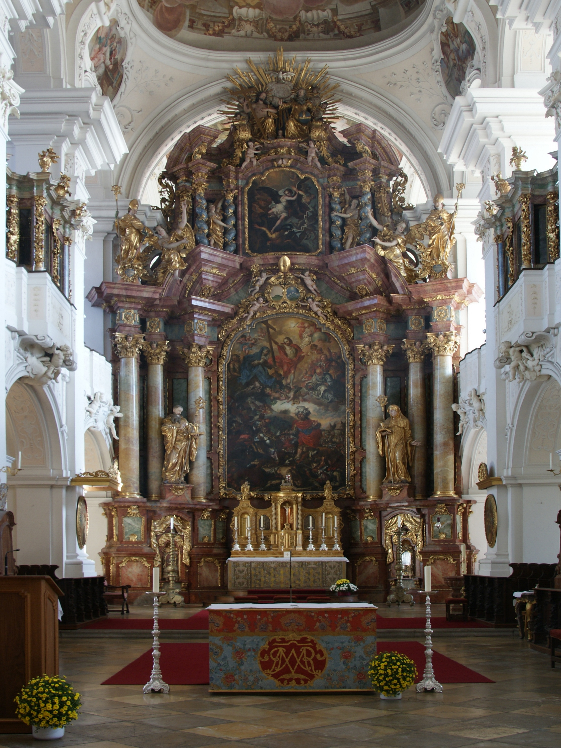 Main altar ( 1703 ) of church at Niederaltaich Abbey